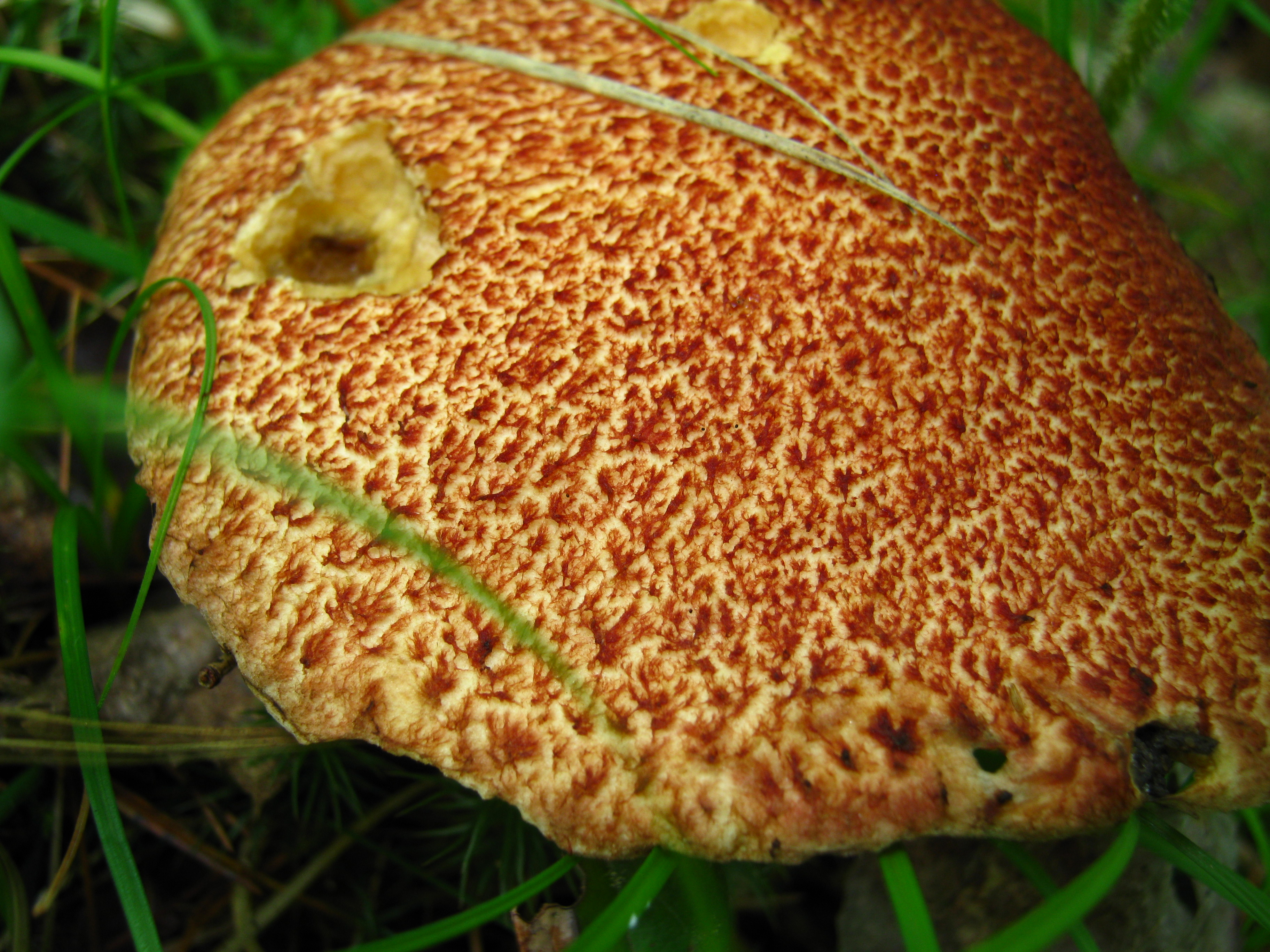 The mushroom Suillus pictus (synonymous with Suillus spraguei). Specimen photographed in a Forest near Elgin Street, Pembroke, Ontario, Canada.